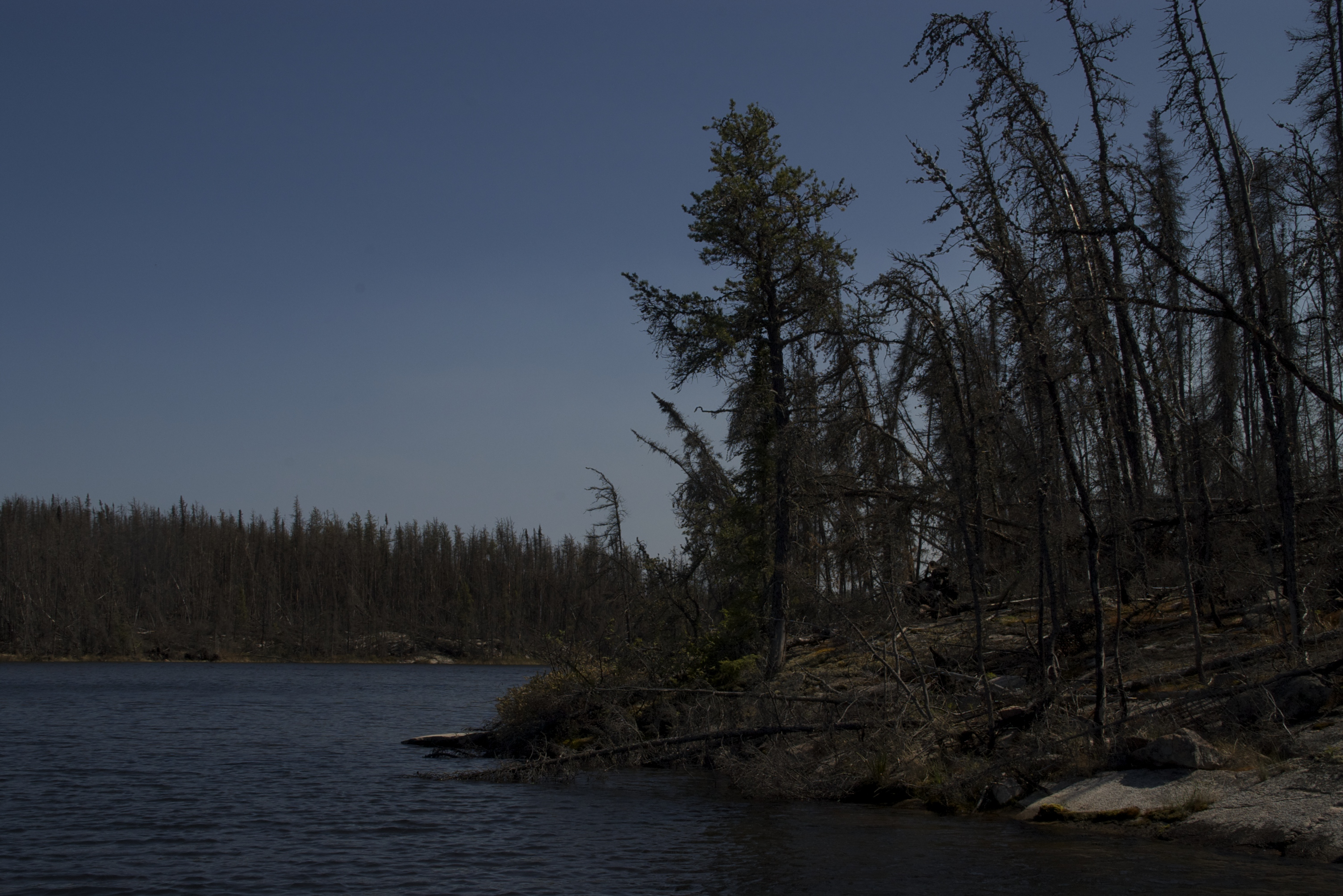 Part of the Mistik Creek chain